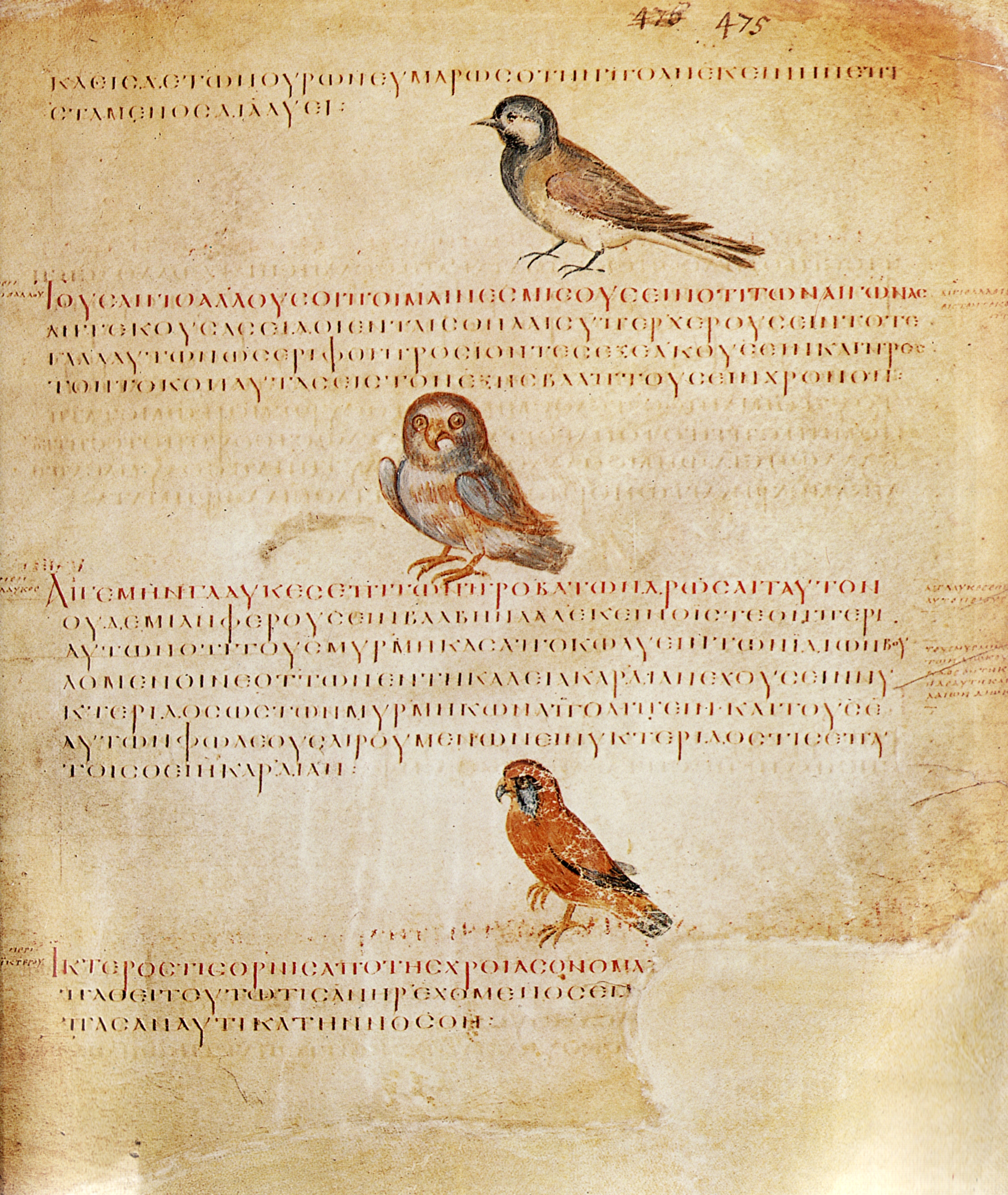 Page from the Vienna Dioscurides